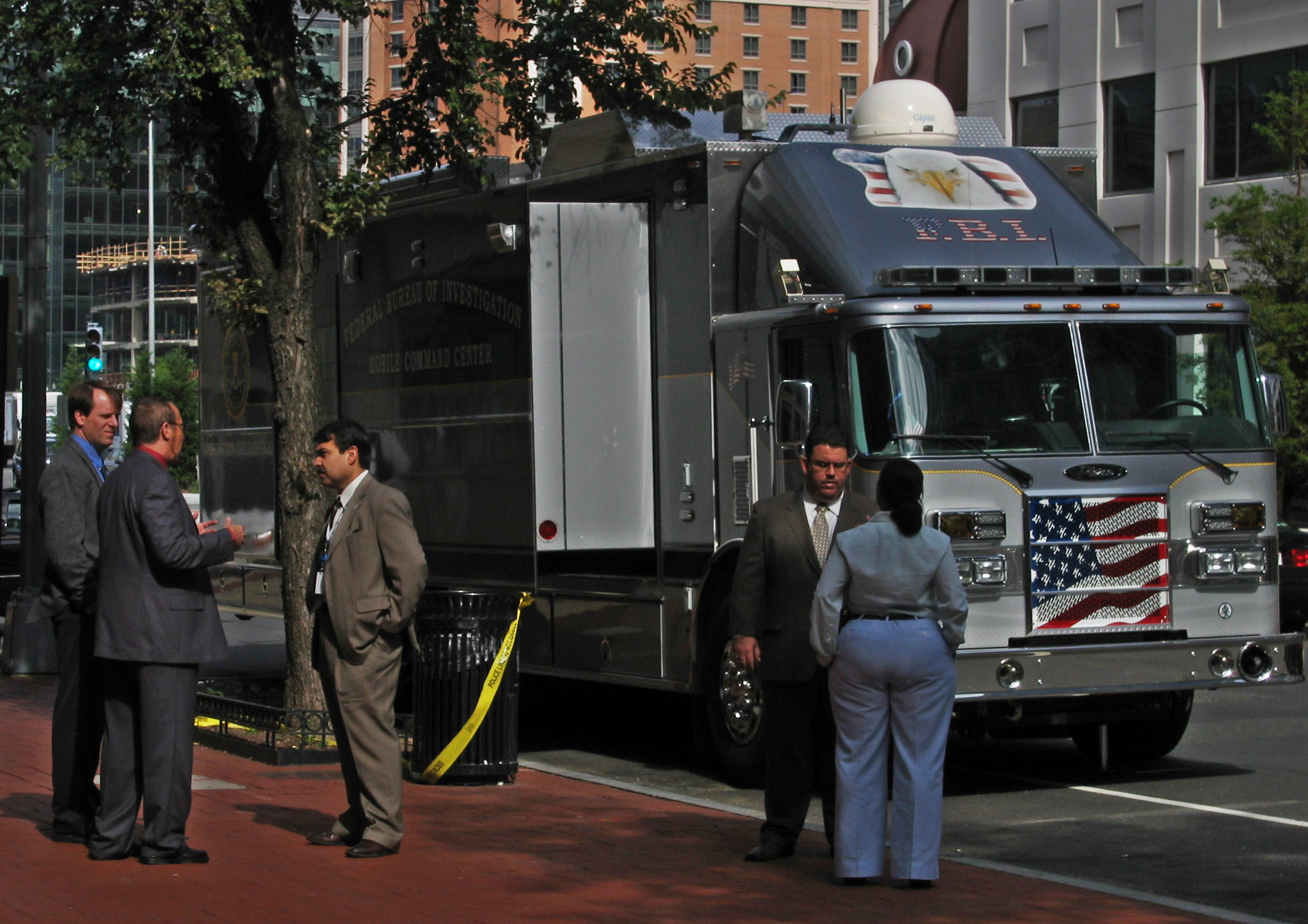 FBI Mobile Command Center - Washington Field Office